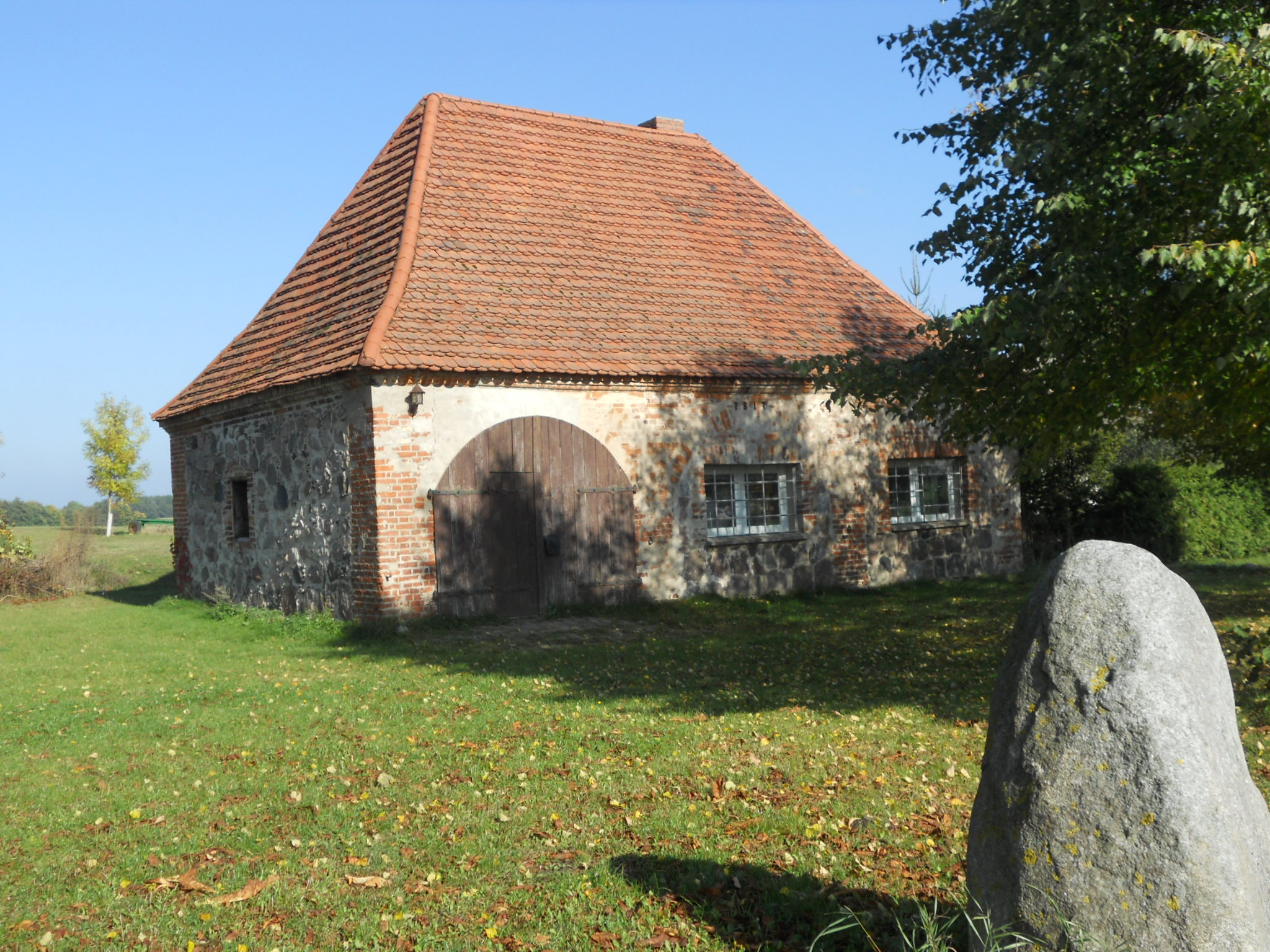 Alte Schmiede in Groß Tessin